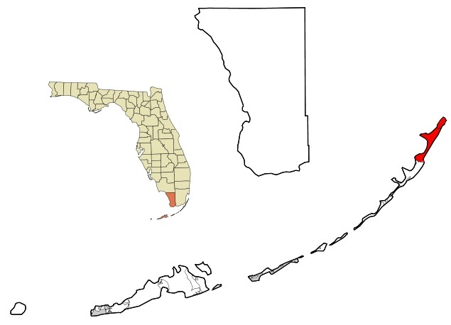 Key Largo Cotton Mouse Distribution Map